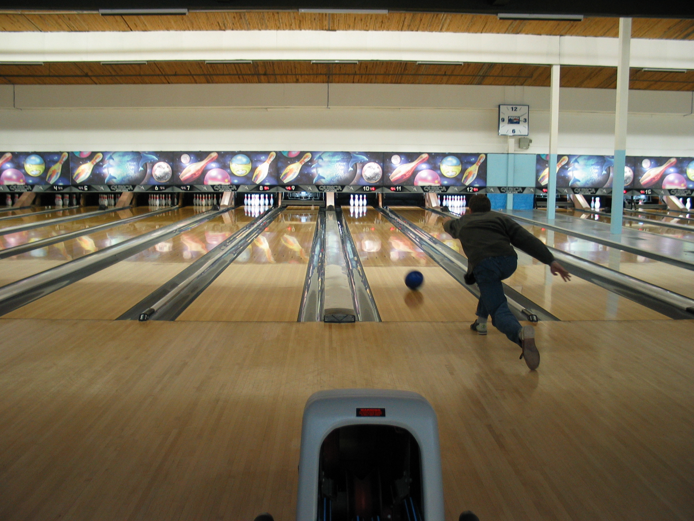 Ten-pin bowling at the Prost Bowling Centre in Kingston, Ontario, Canada.